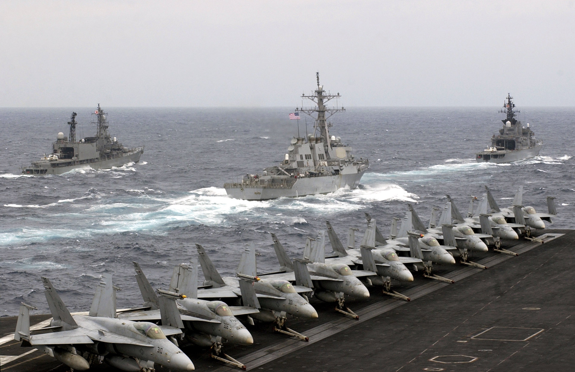 PHILIPPINE SEA (March 18, 2007) - Off the port side of USS Ronald Reagan (CVN 76), USS Paul Hamilton (DDG 60), center, JS Myoko (DDG 175), right, and JS Hamagiri (DD 155) move into position to participate in a photo exercise (PHOTOEX) between the U.S. Navy and Japan Maritime Self Defense Force (JMSDF). Ronald Reagan Carrier Strike Group, with embarked Carrier Air Wing (CVW) 14, is deployed in support of operations in the 7th Fleet area of responsibility. U.S. Navy photo by Mass Communication Specialist 2nd Class Aaron Burden (RELEASED)